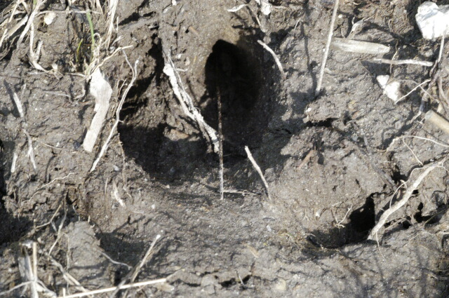 Sus scrofa tracks on mud, from Commanster, Belgian High Ardennes (50°15'20``N,5°59'58``E)